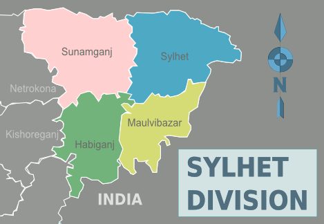 Colour-coded map of the districts of Sylhet Division in Bangladesh (Wikivoyage regional scheme), English version